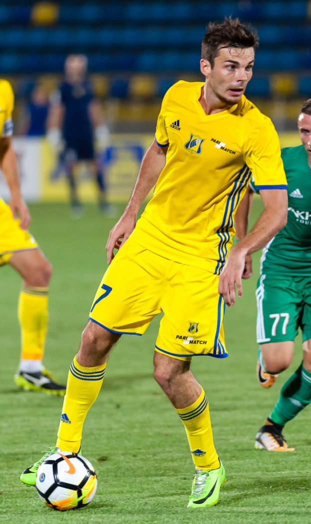 Artur Yusupov with FC Rostov in a game against FC Akhmat Grozny.